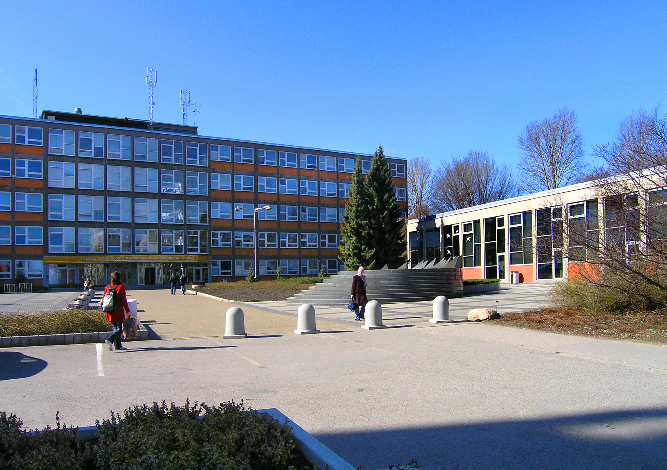 Czech University of Life Sciences Prague in Suchdol, Prague. Faculty of Agrobiology, Food and Natural Resources